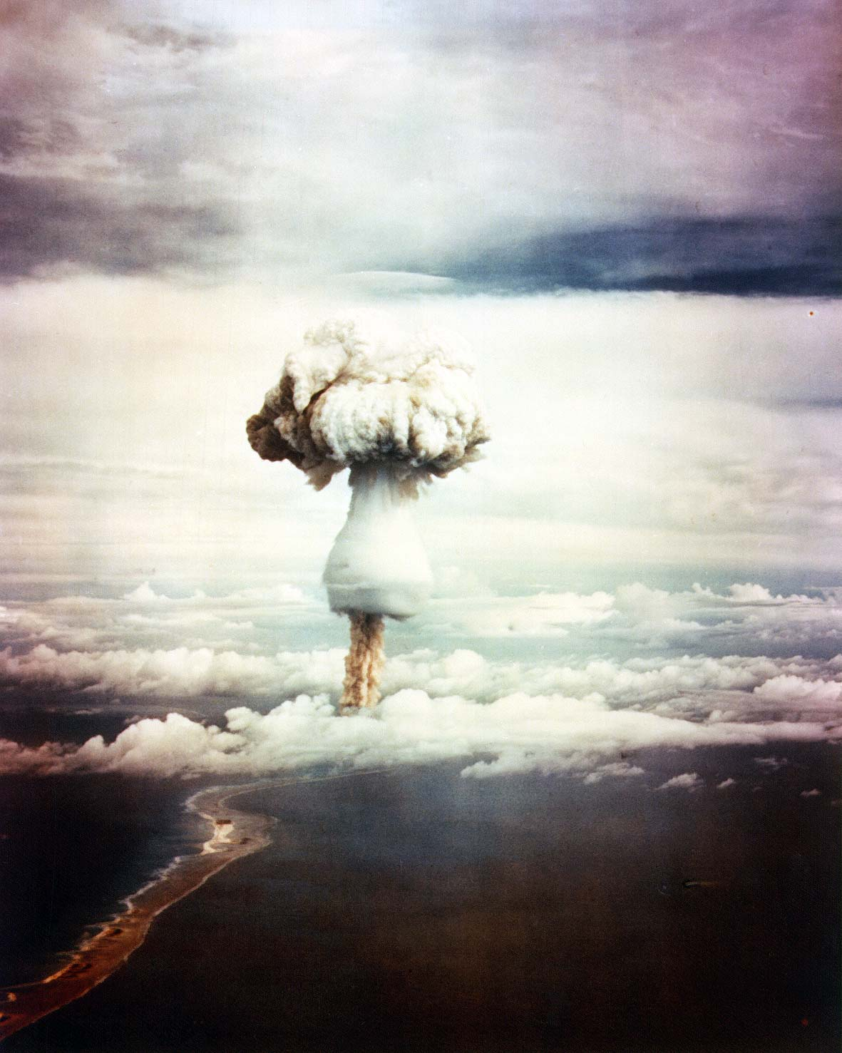 U.S. nuclear test "George" of Operation Greenhouse test series, 9 May 1951. The "George" shot was a "science experiment" showing the feasibility of the Teller-Ulam design concept (which would itself be fully tested in "Ivy Mike").